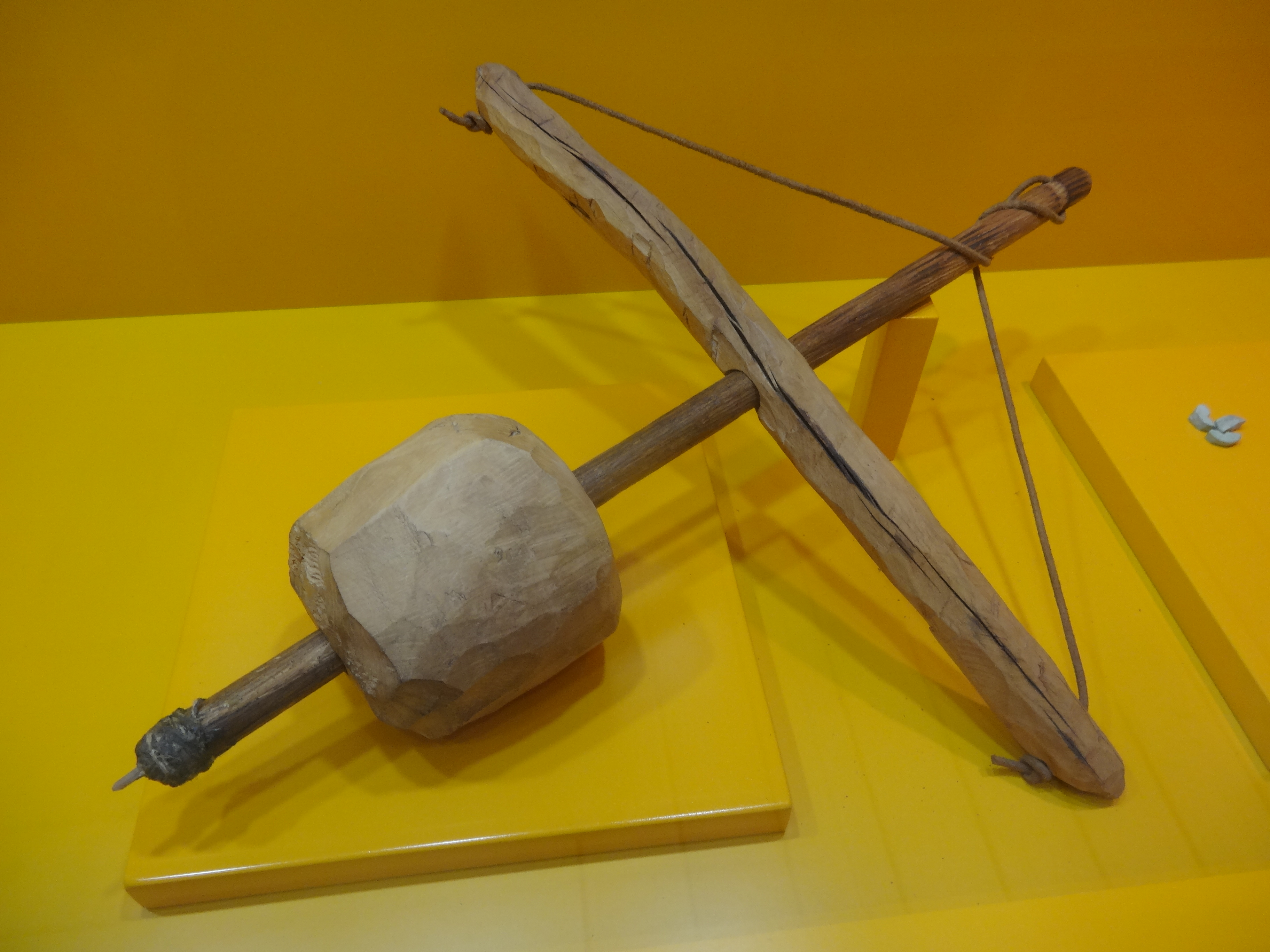 Archaeological site of the Gavà neolithic mines (Parc Arqueològic Mines de Gavà). Revolving trepan with flint tip